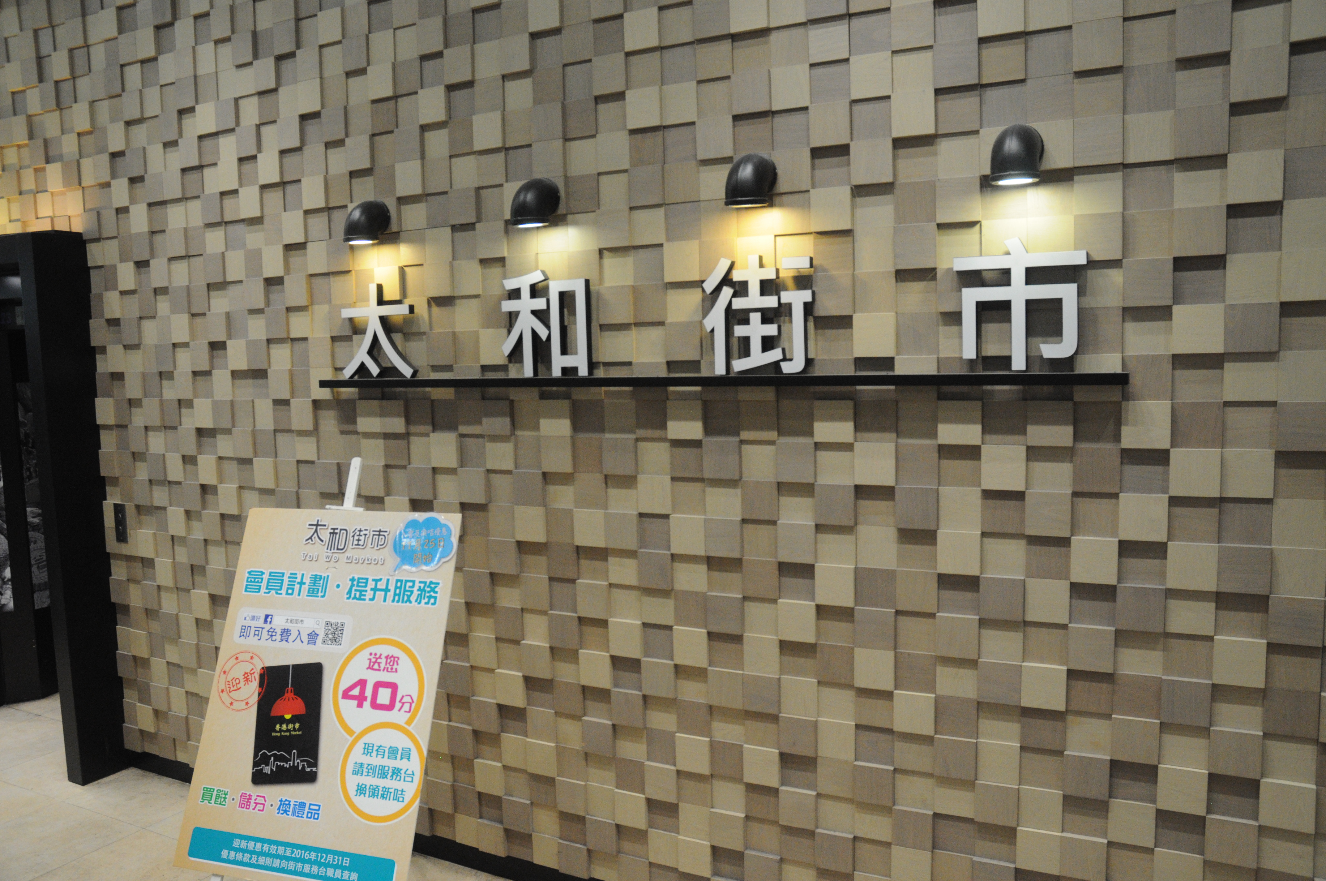 Tai Wo Market, an indoor wet market of Tai Wo Plaza. See Tai Wo for the full terminology and history of the areas "Tai Wo"